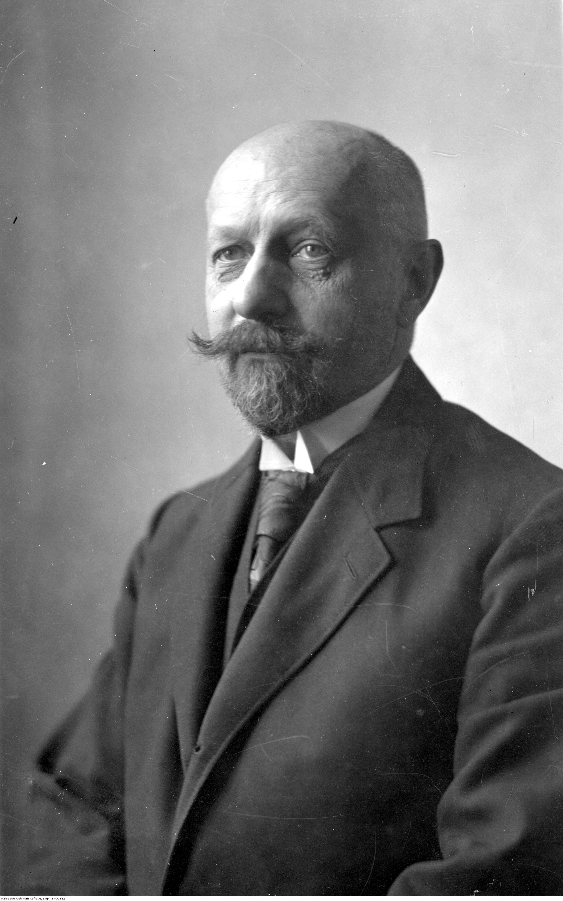 Juliusz Makarewicz (1872-1955), Polish lawyer, professor of University of Lwów, president of department of penal law of University of Lwów. The main author of Polish penal code (1934), s.c. "Makarewicz Code"